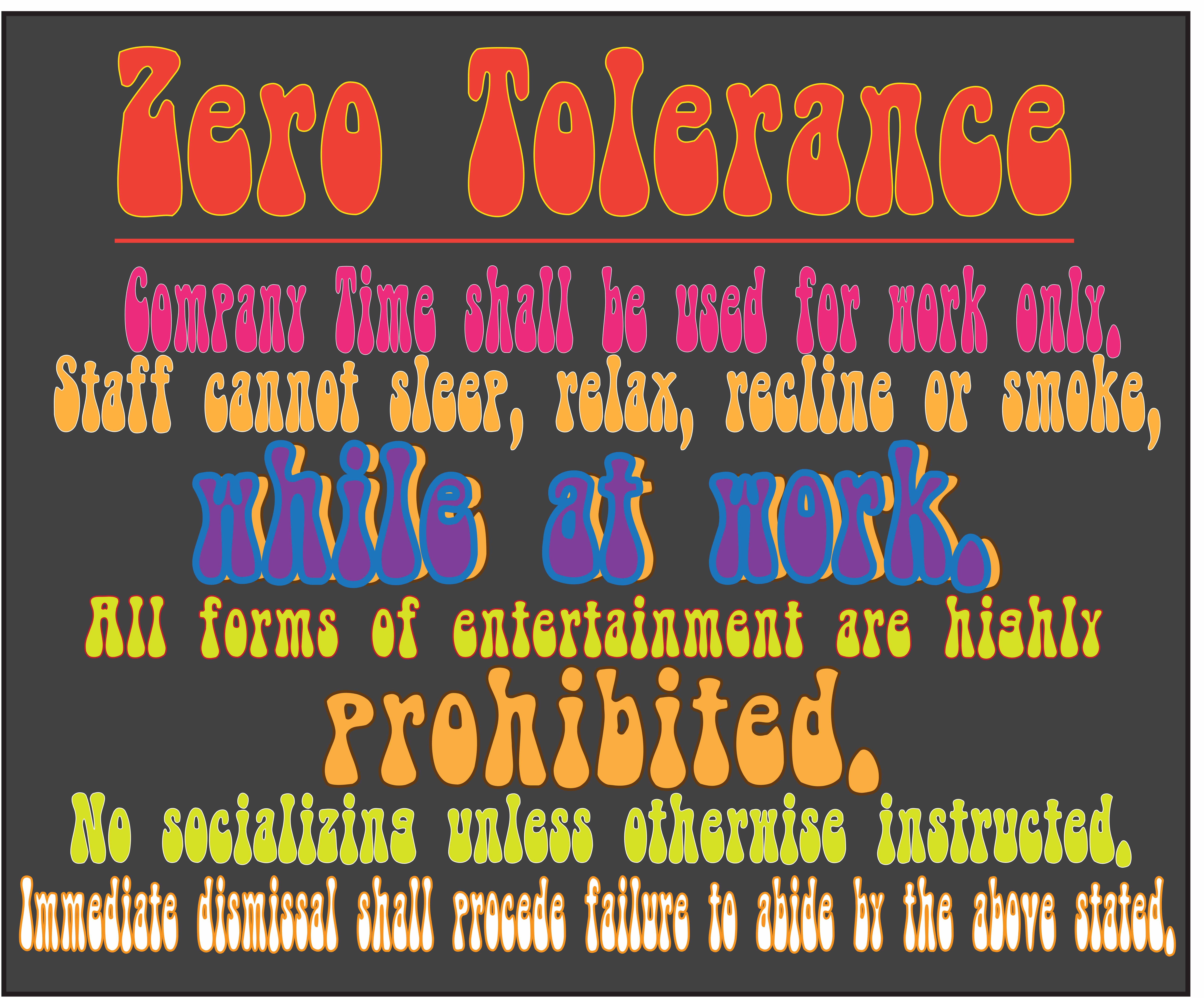 illustration